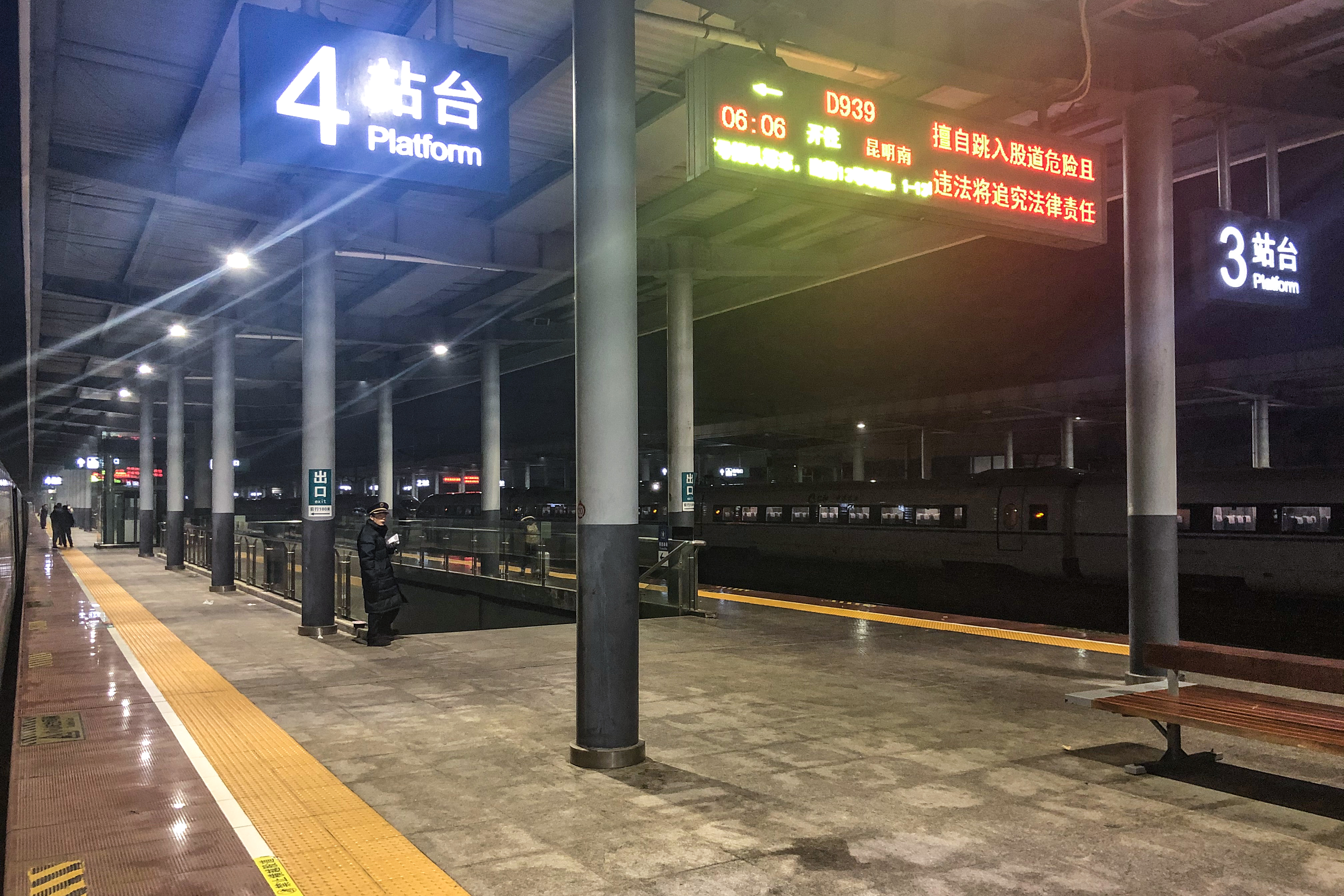 Taken during the stopover of D939.